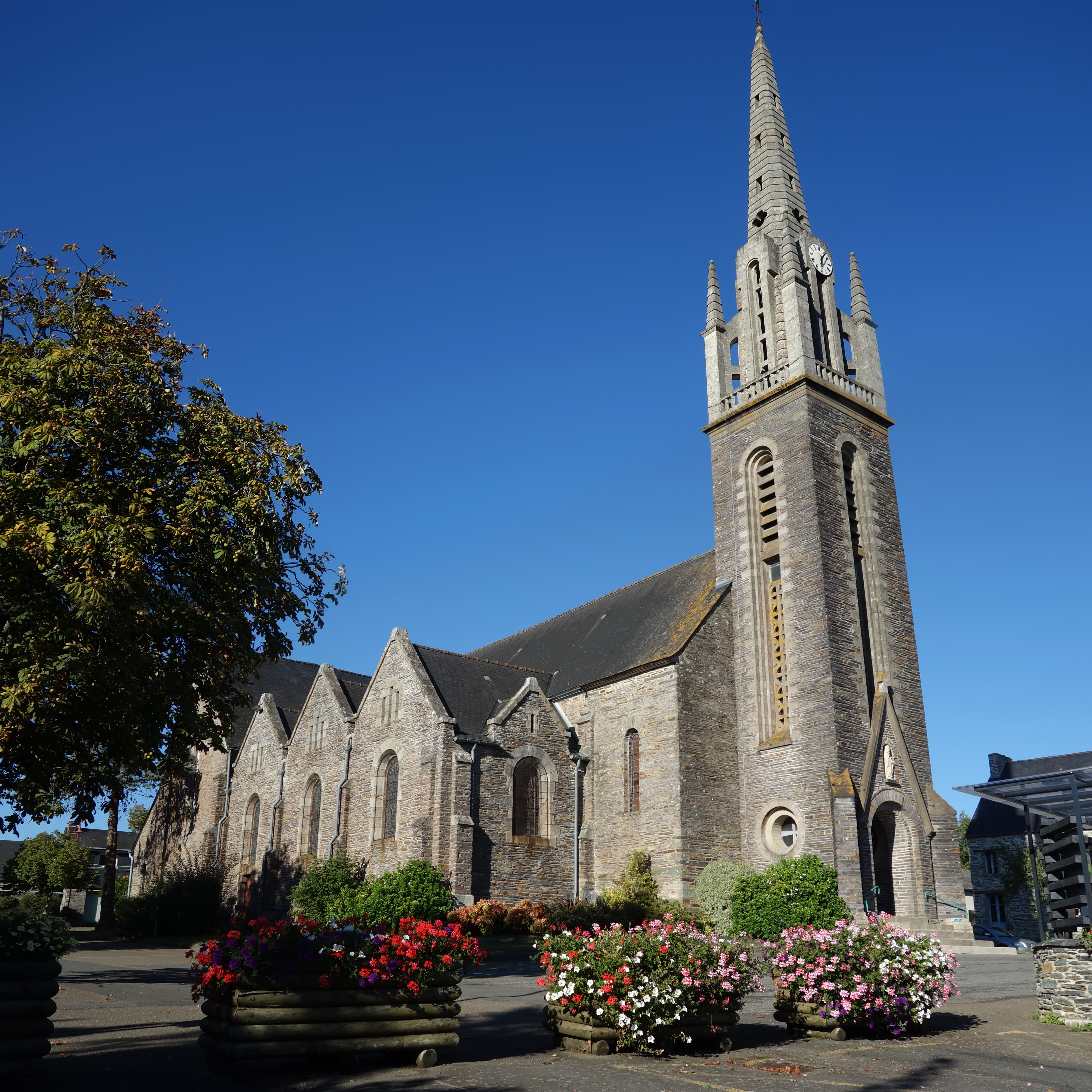 The point of view from the southwest. This parish church has the same name as the current village in memory of the relics of Saint-Just: "The church of Vieux-Bourg then takes the name of Saint-Just because of the relics of this saint it hosts"